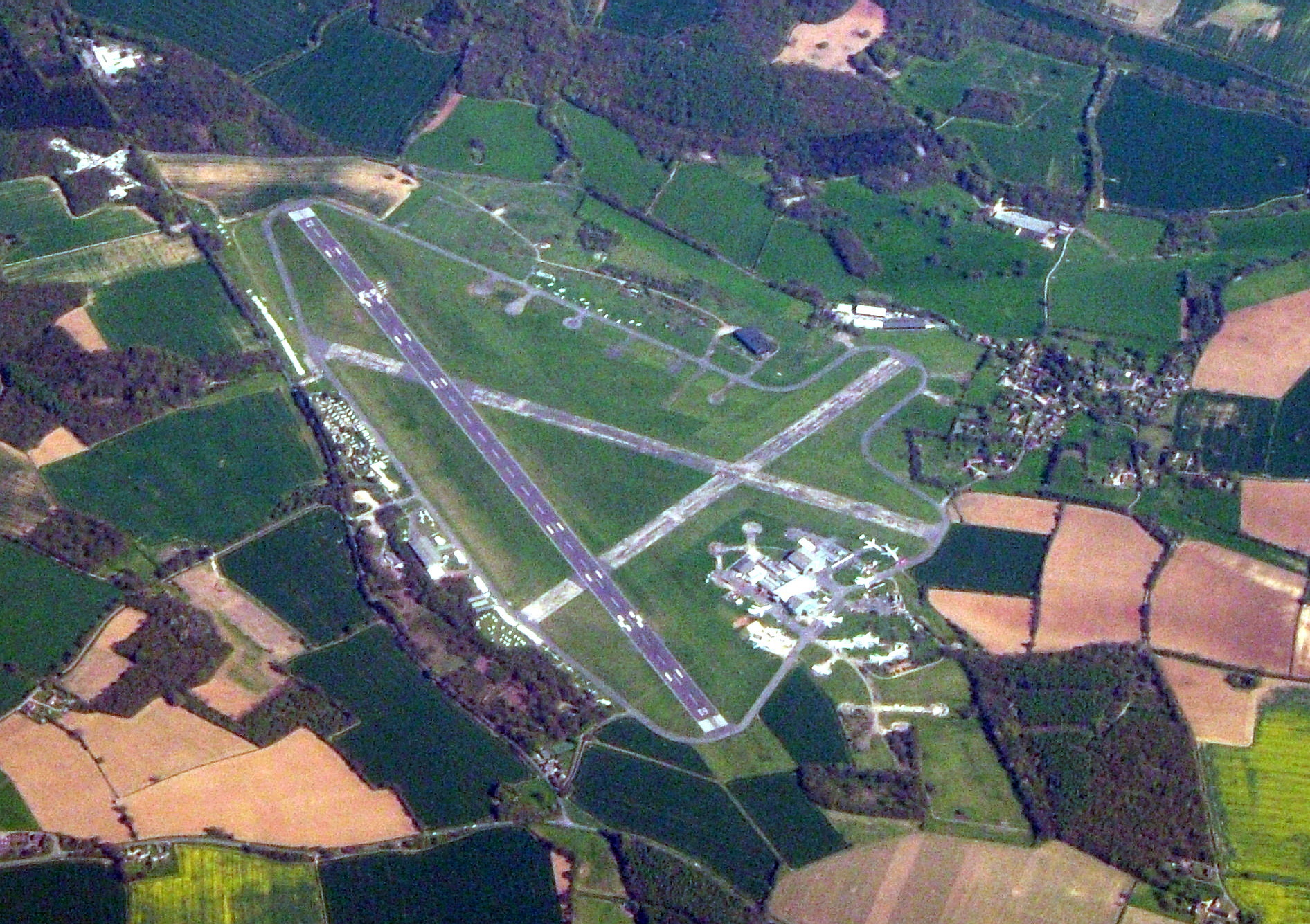 Aerial view of Lasham Airfield